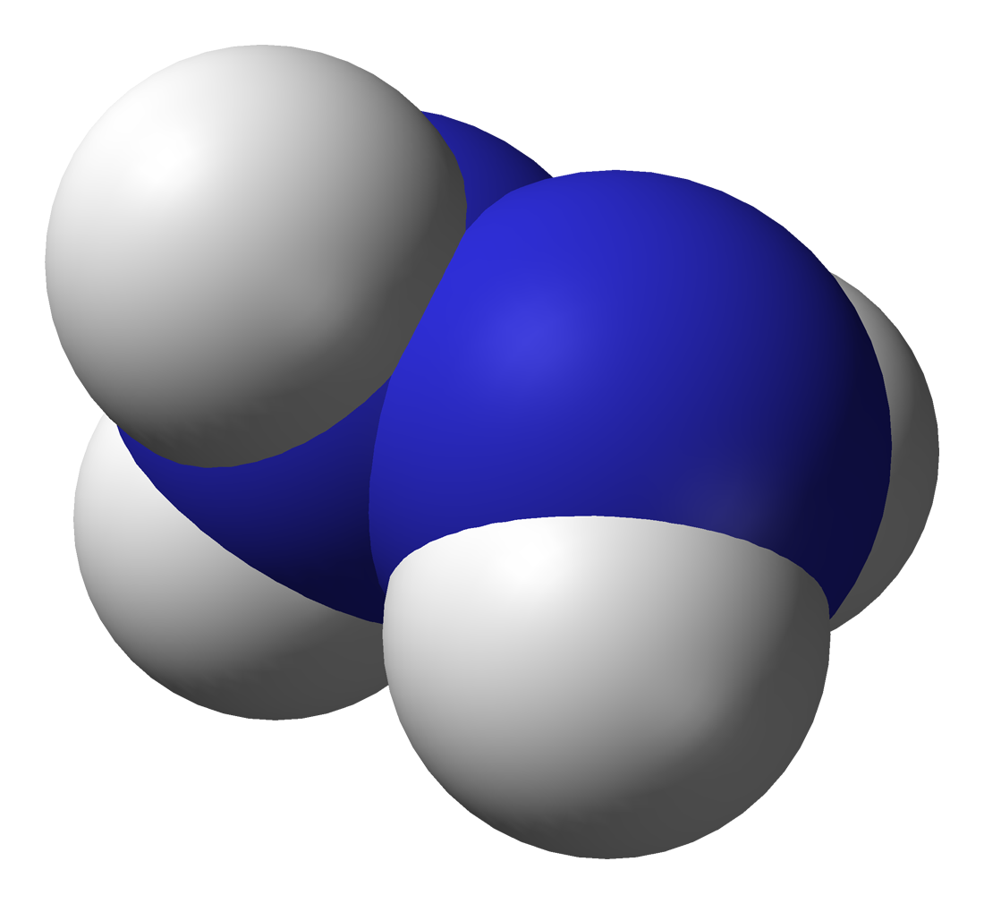 Space-filling model of the hydrazine molecule, N2H4. Gas phase electron diffraction data from Kunio Kohata, Tsutomu Fukuyama, and Kozo Kuchitsu (1983). "Molecular structure of hydrazine as studied by gas electron diffraction". The Journal of Physical Chemistry 86: 602-606.